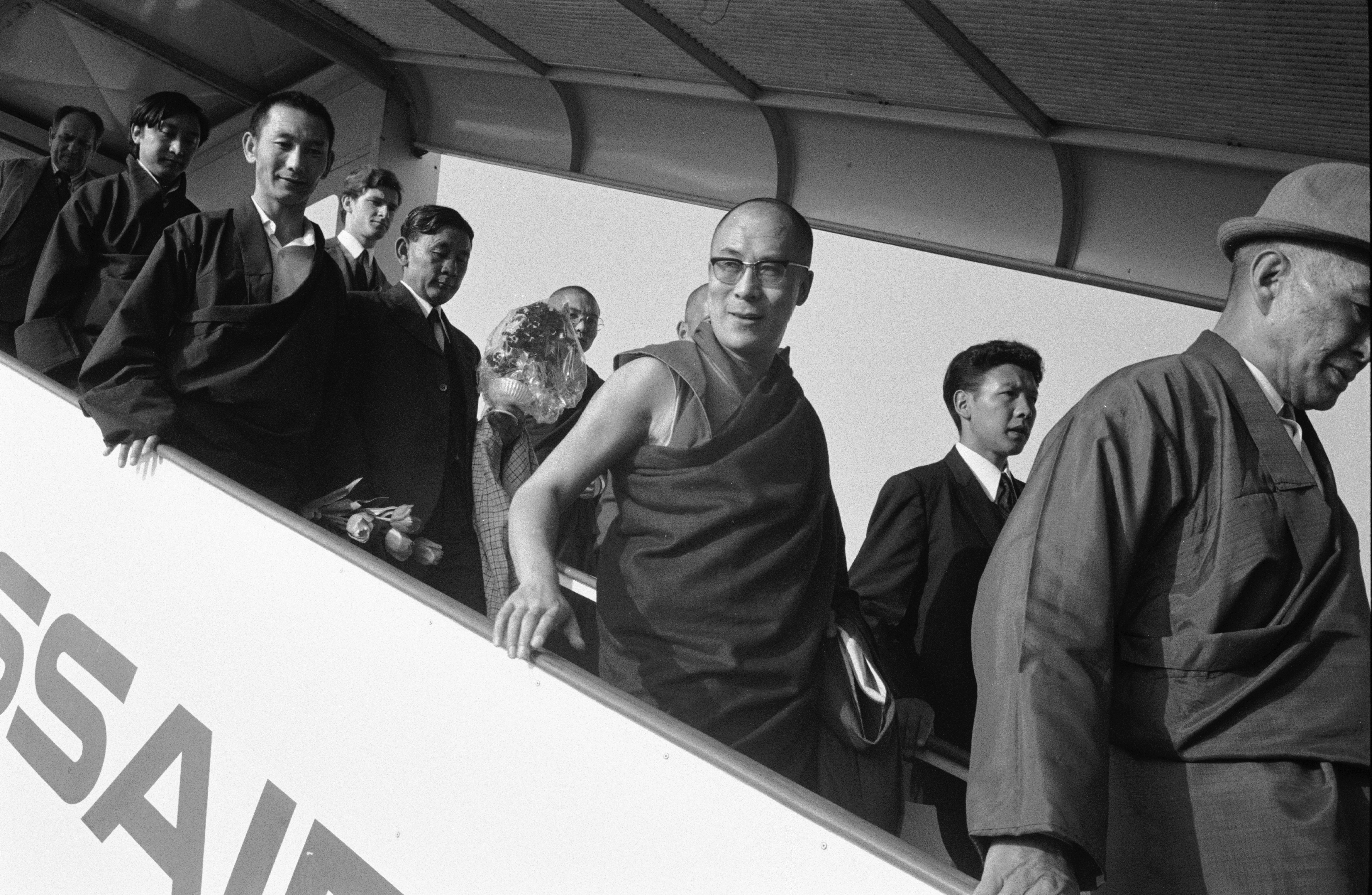 Dalai Lama, arrival at the airport Kloten (Zürich, Switzerland)